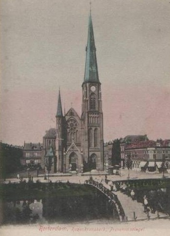 Provenierskerk, catholic church Rotterdam, Build 1898-1899, demolished 1975